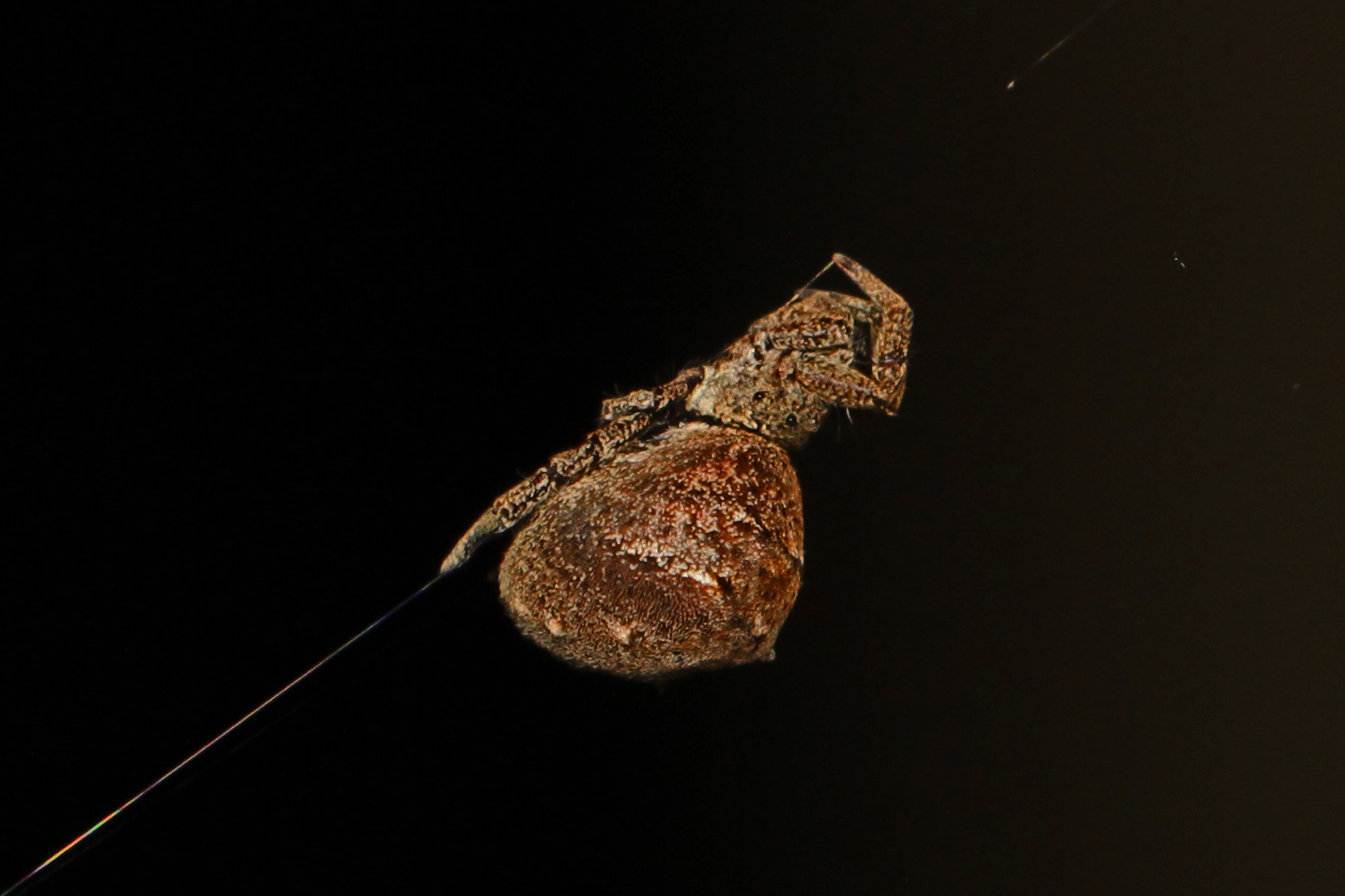 Triangle Spider - Hyptiotes cavatus, Julie Metz Wetlands, Woodbridge, Virginia. This is called the Triangle Spider because its web is in the shape of a triangle. I've never seen one in the daytime.